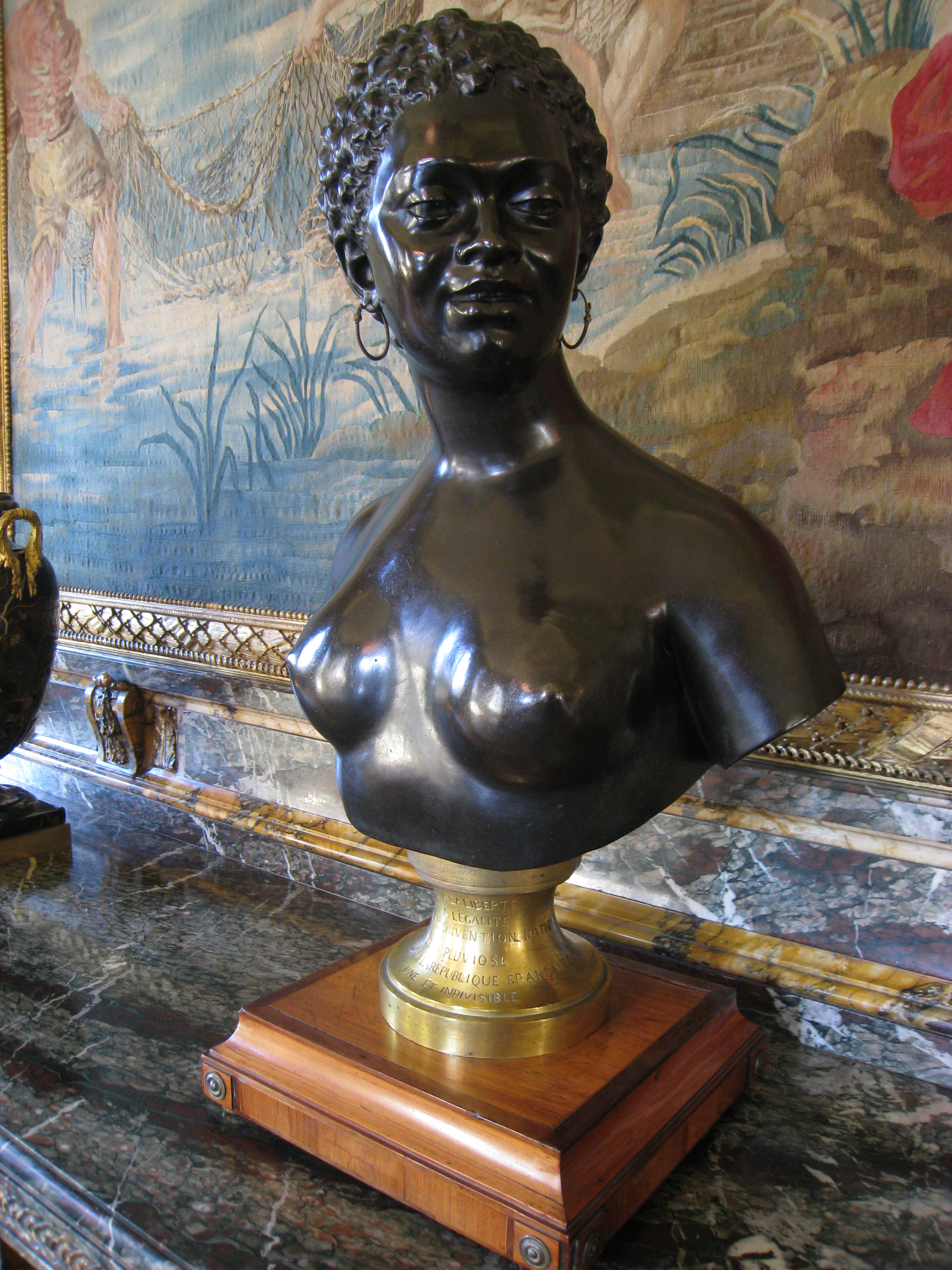 Musée Nissim de Camondo, Paris, France - Pierre-Philippe Thomire (1751-1843) - Buste de Négresse. The original work is old enough so that copyright (if any) has long since expired. The museum imposed no restrictions on photography (except prohibiting flash) in writing and when I explicitly asked; thus the original image appears free of copyright restrictions.